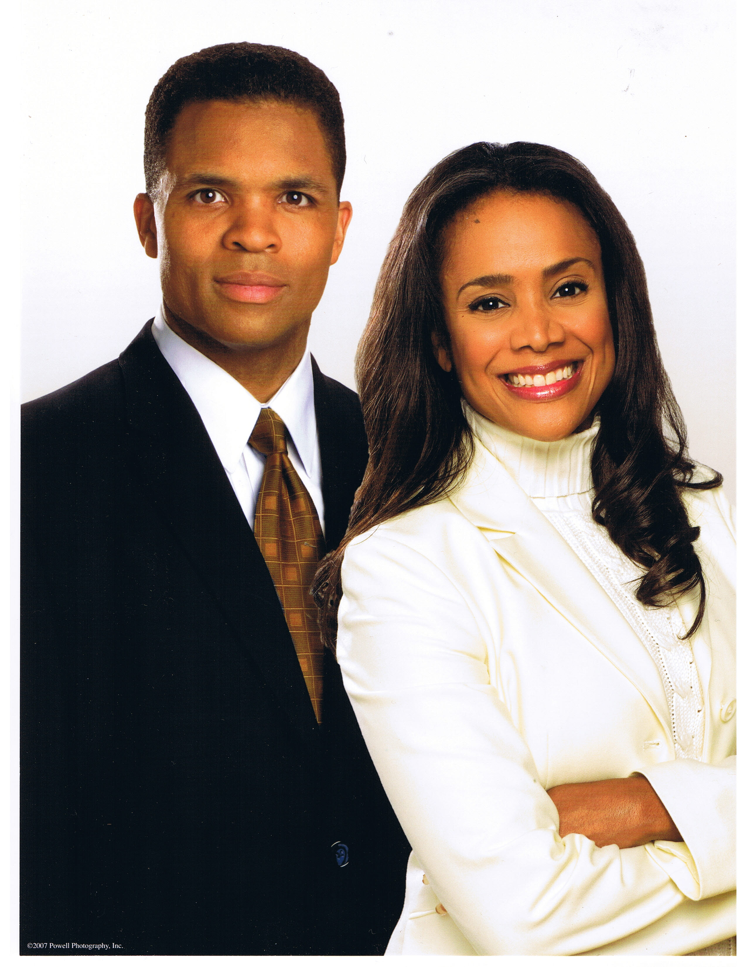 Sandi Jackson and Jesse Jackson